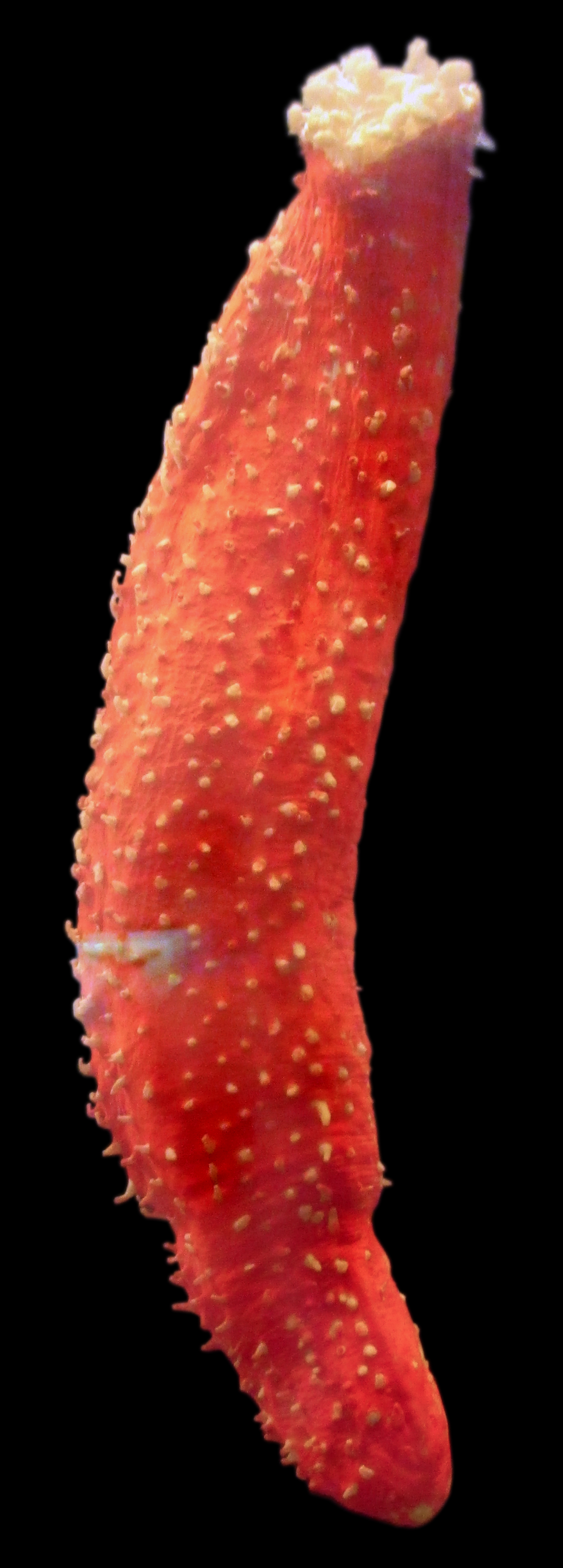 The specimen of the sea cucumber species Stichopus tremulus (synonym Parastichopus tremulus) from Gullmarsfjorden in Bohuslän at Göteborgs Naturhistoriska Museum, Göteborg, Sweden